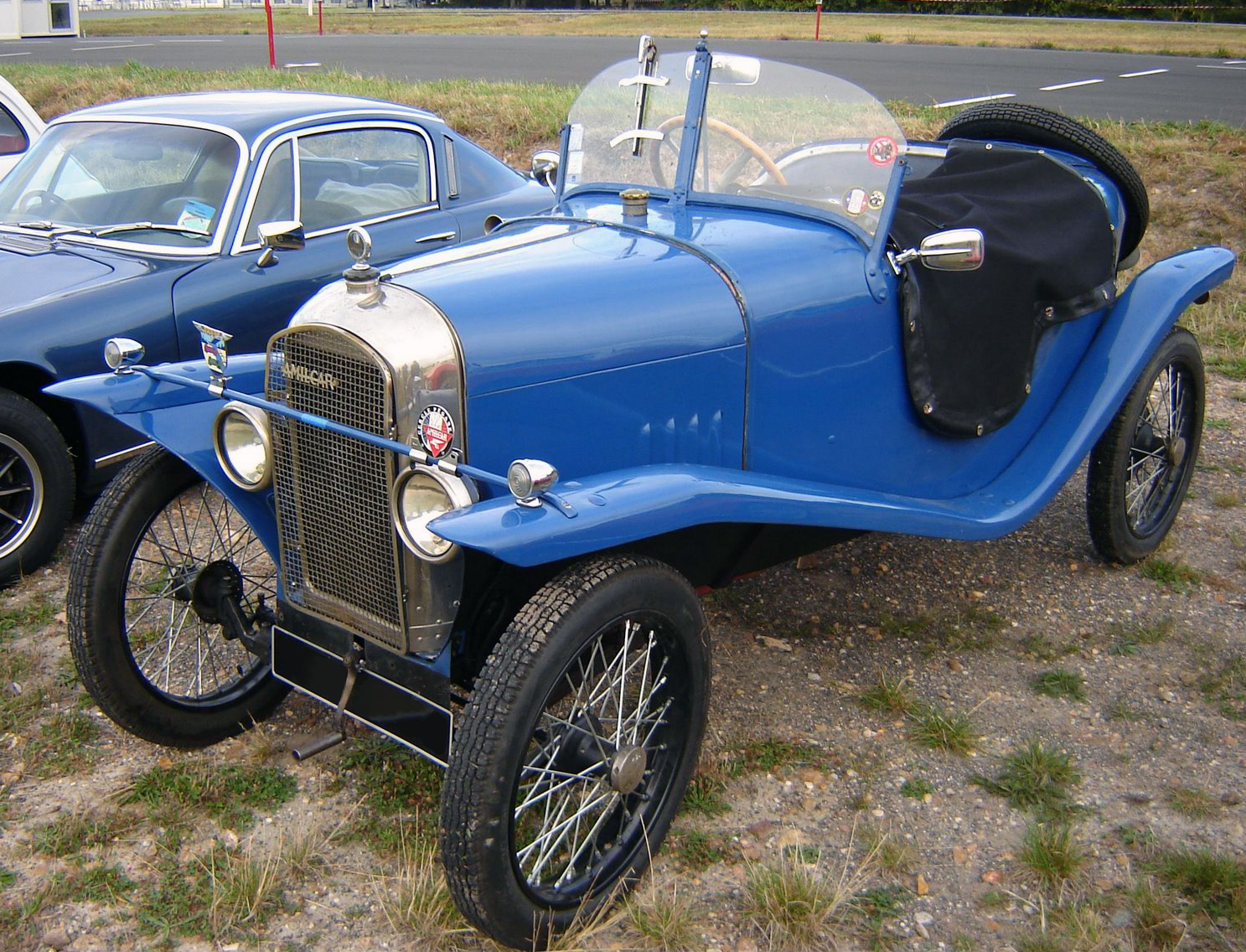 Early twenties' Amilcar CC (or perhaps a CS with fenders?) at the Autodrome de Linas-Montlhéry, 2009.